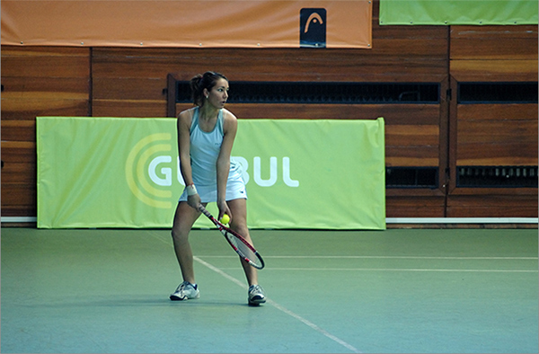 Elitsa Kostova, State Tennis Championship - Women Semifinal; 2007 Plamen Tashev